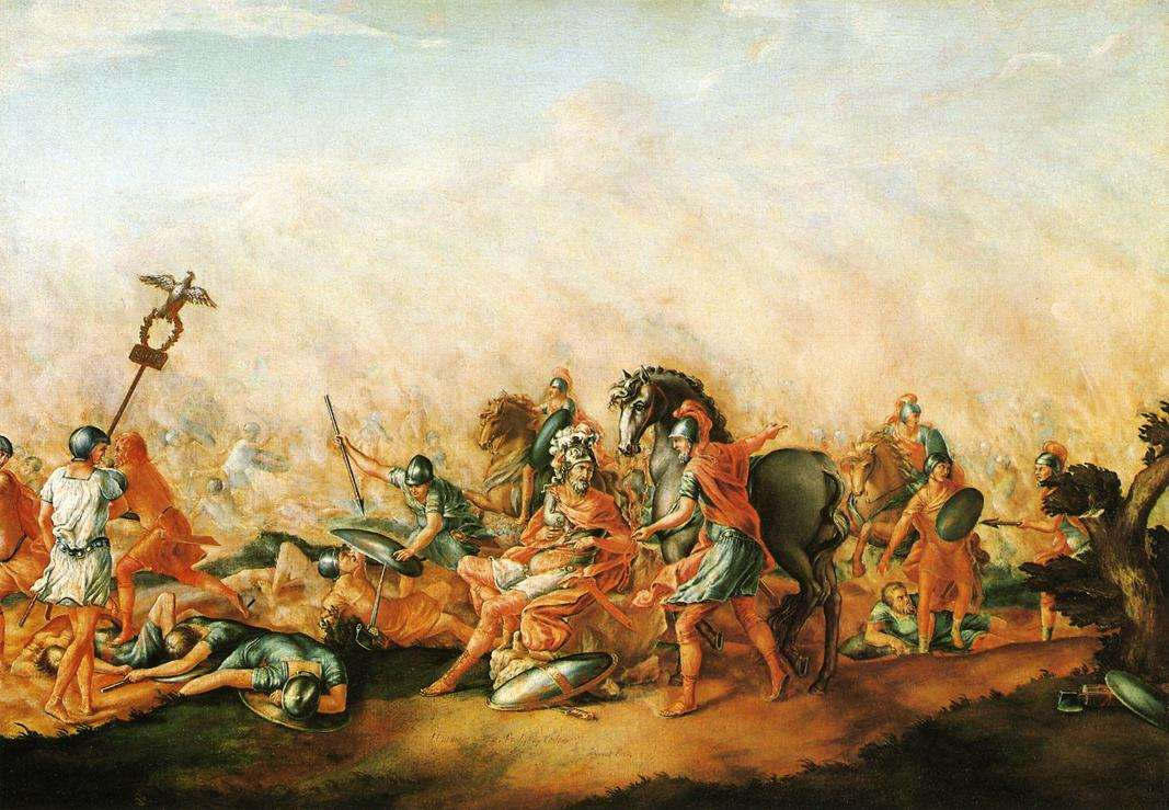 The Death of Aemilius Paulus